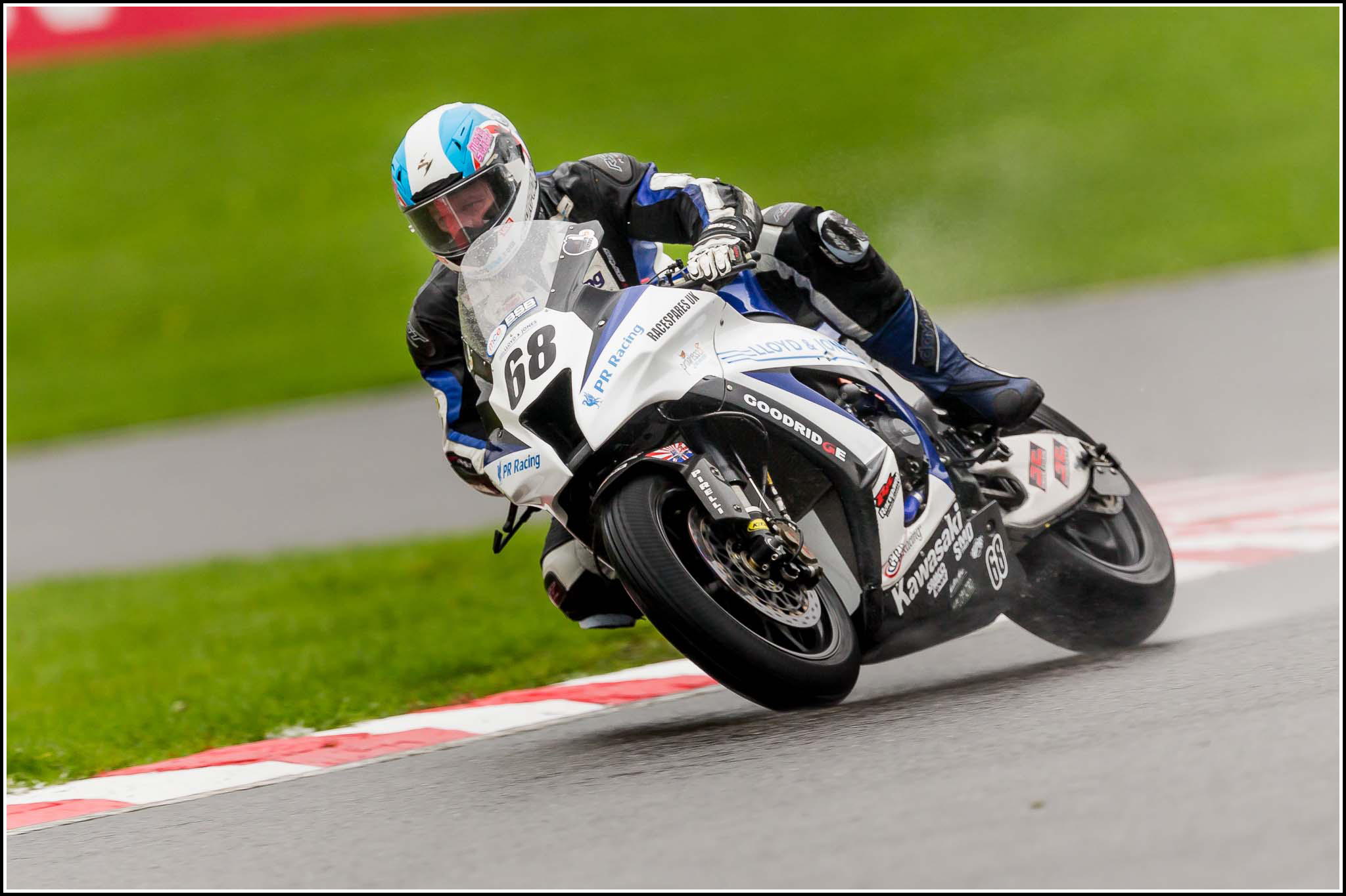 Three-time British Supersport champion and British Superbike rider Karl Harris died in an accident at the Isle of Man TT races on 3rd June 2014, doing what he loved.